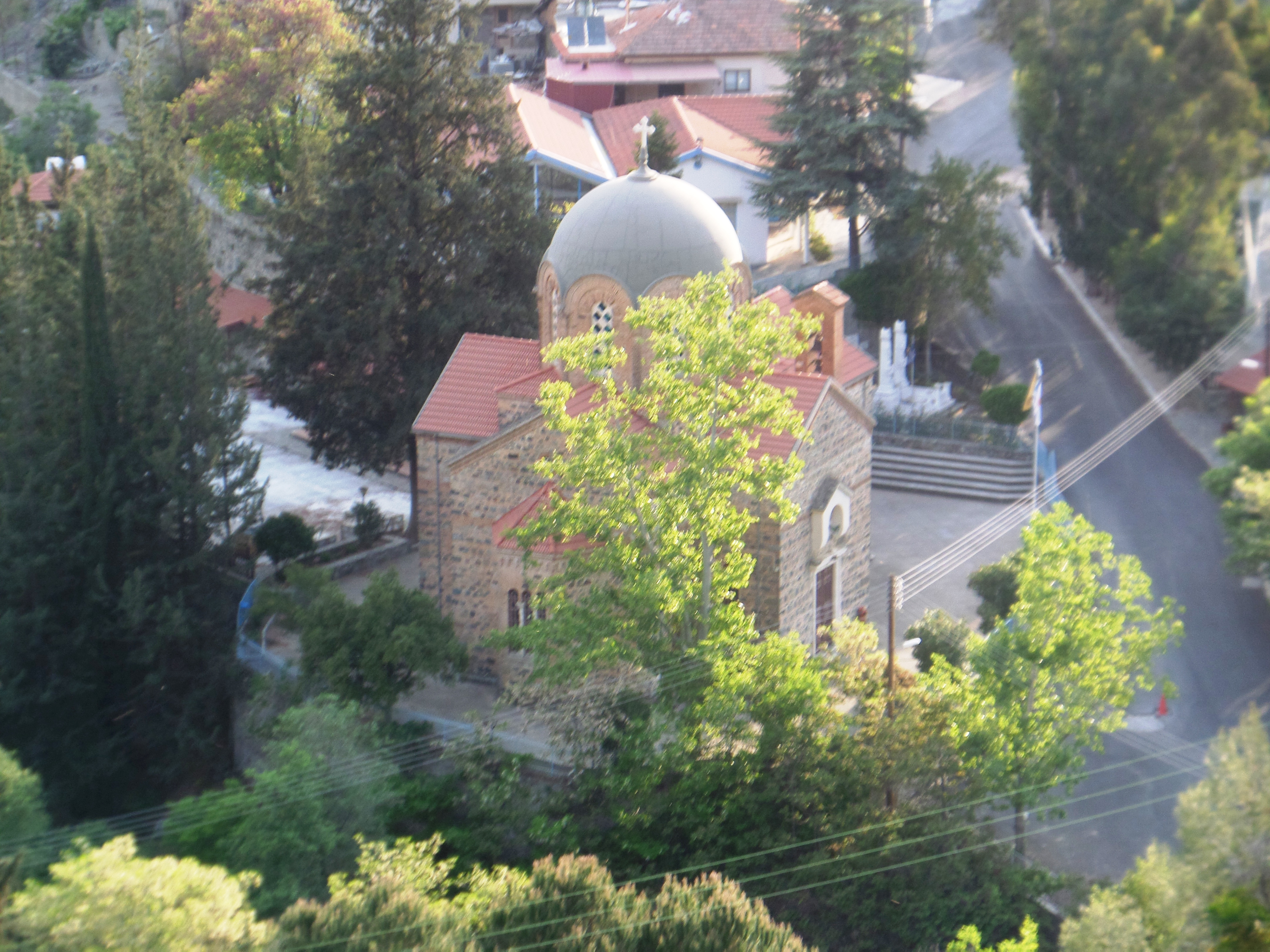 Panagia church in Potamitissa.